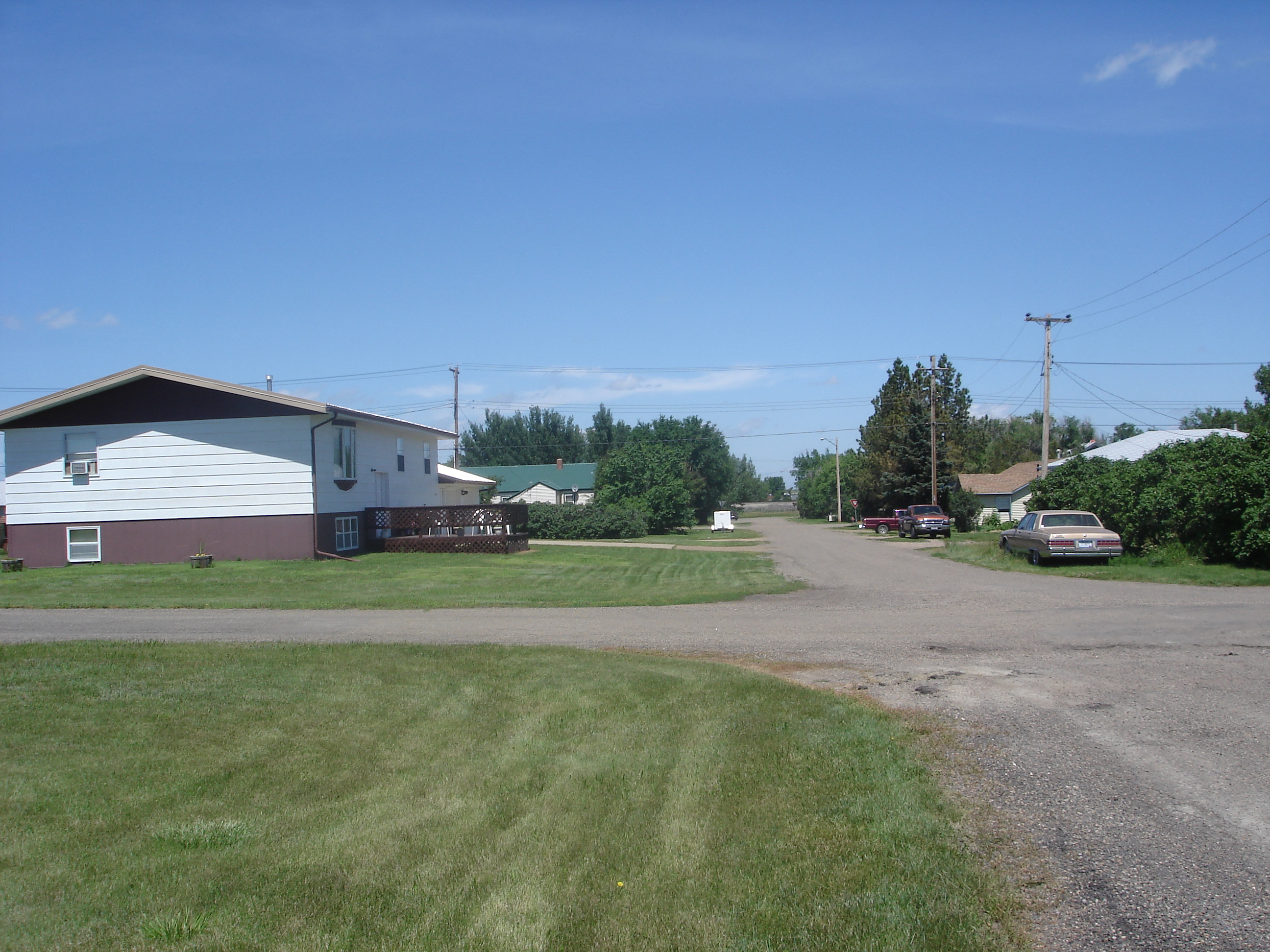 Looking east into northern Wibaux, Montana